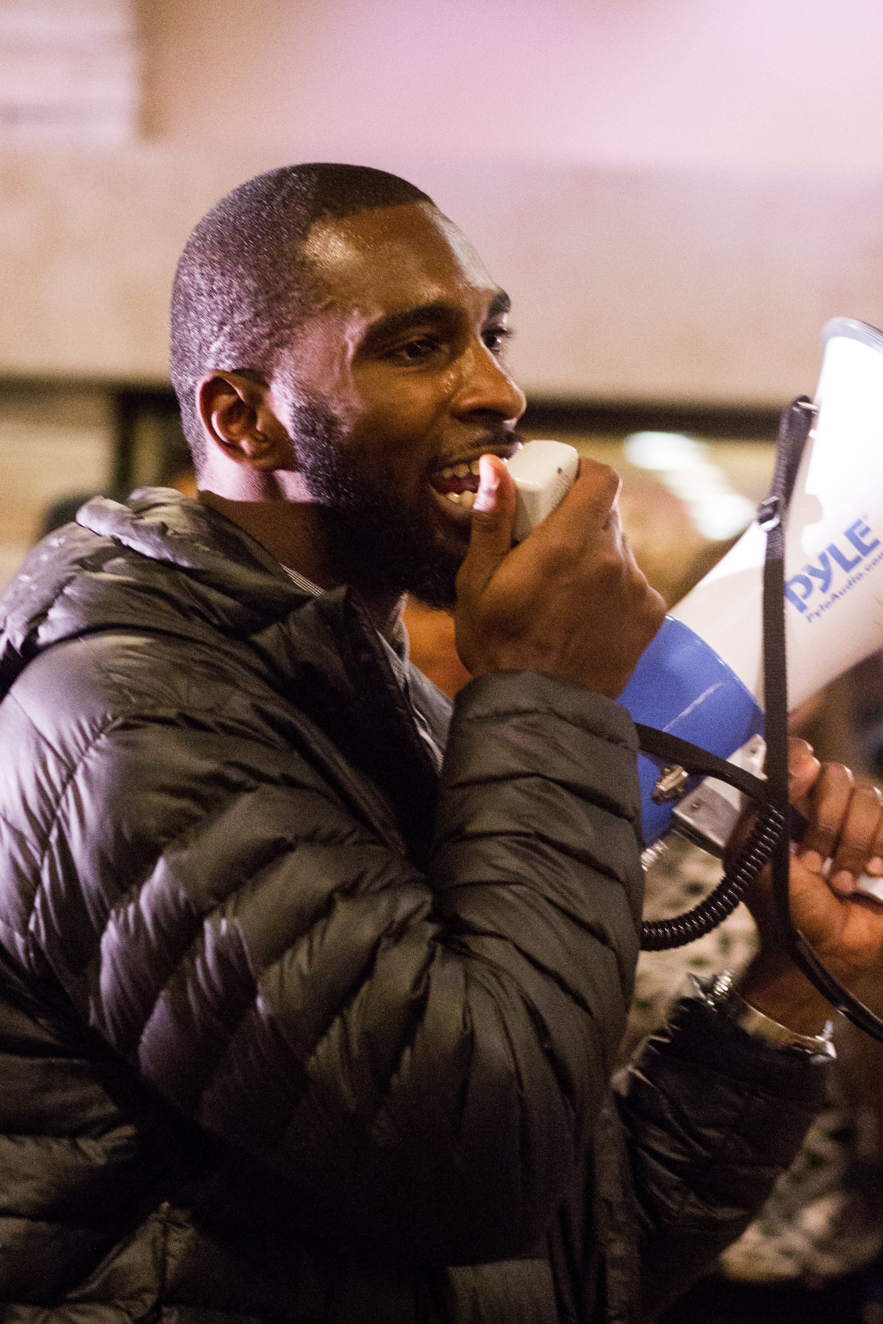 Student Center Concerned Student 1950 shouts into a bullhorn in the basement of Mizzou's Student Center.